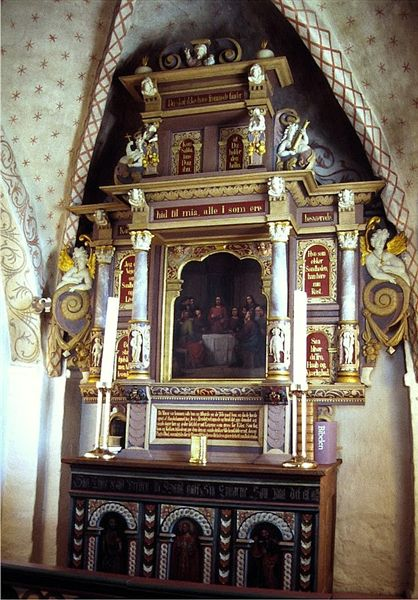 Tuse Kirke (church). Altar from 1625